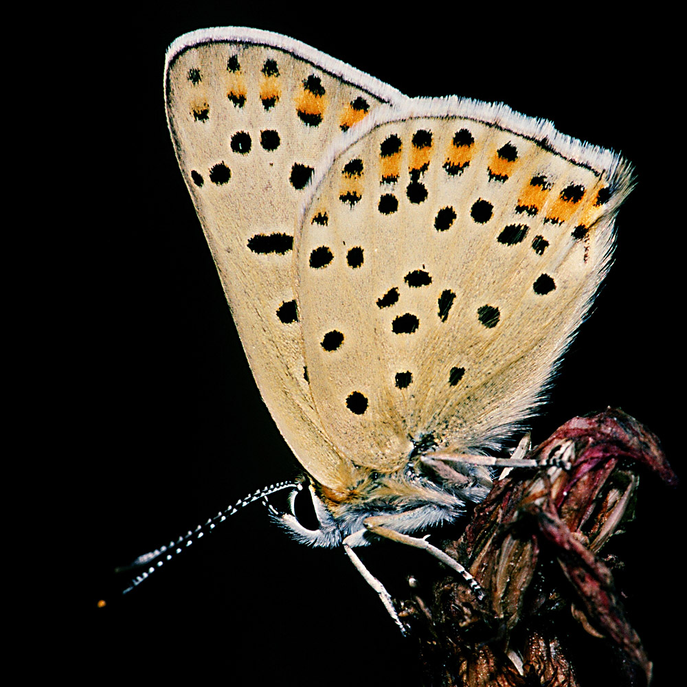 Sooty Copper in Dresden-Heller, Saxony, Germany